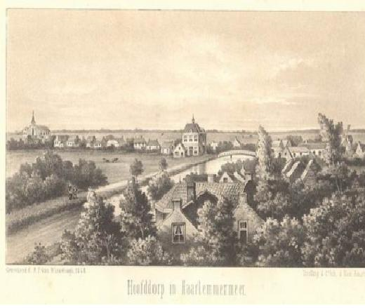 Hoofddorp Centre, Netherlands,date ca. 1890